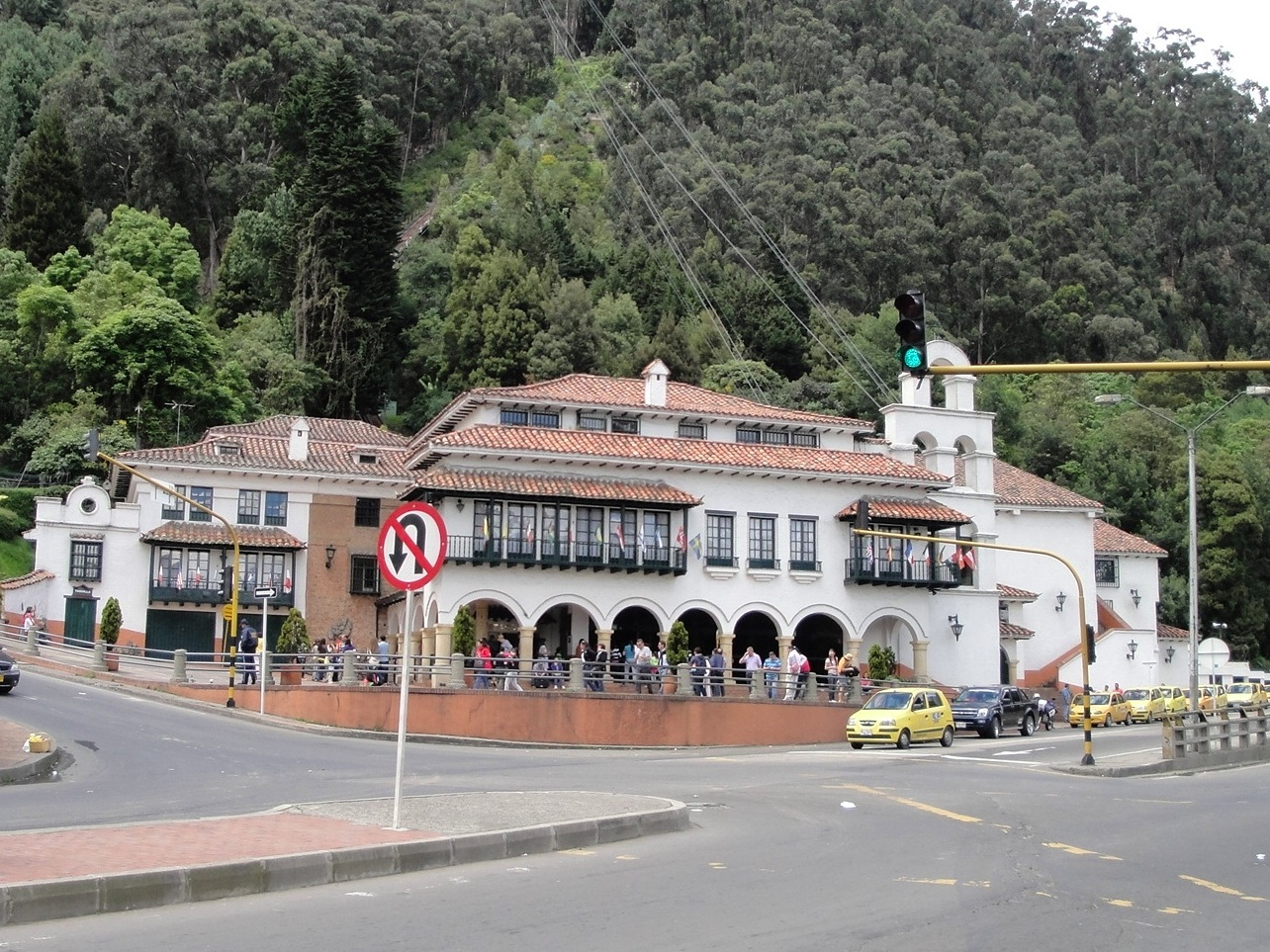 Ticket building to Monserrate